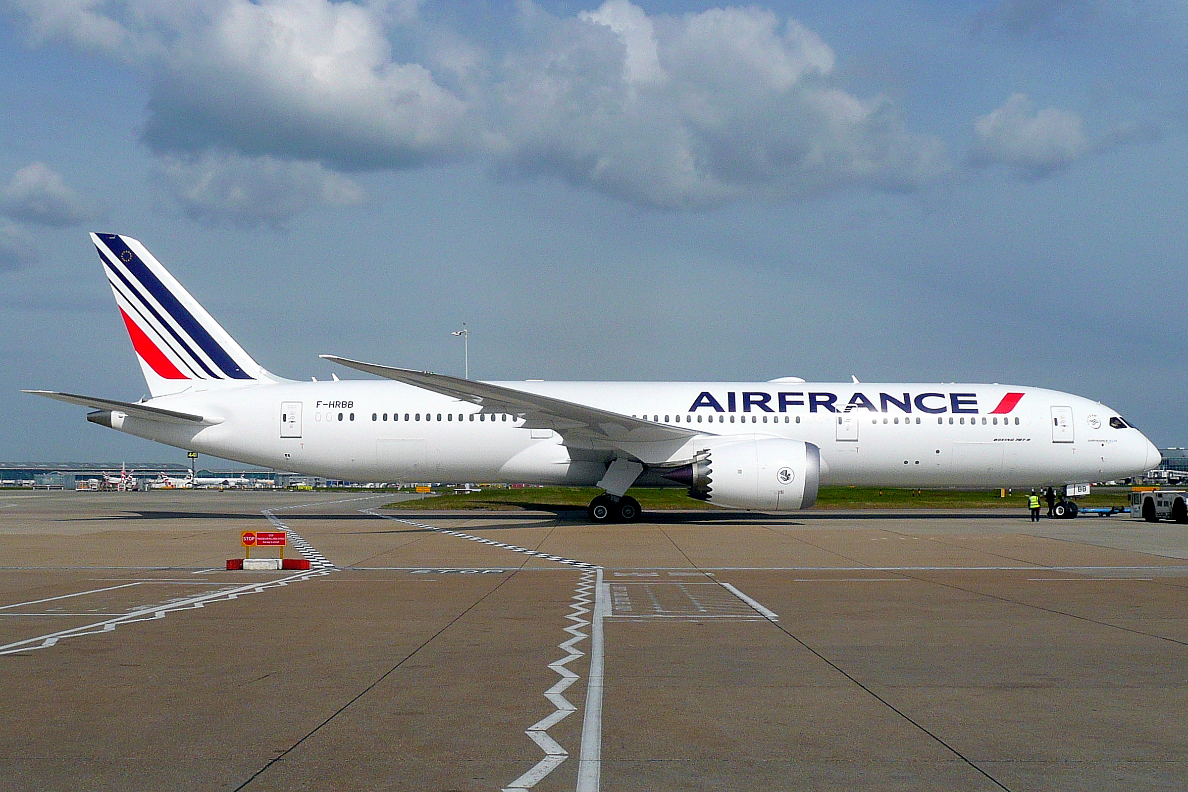 London Heathrow Airport